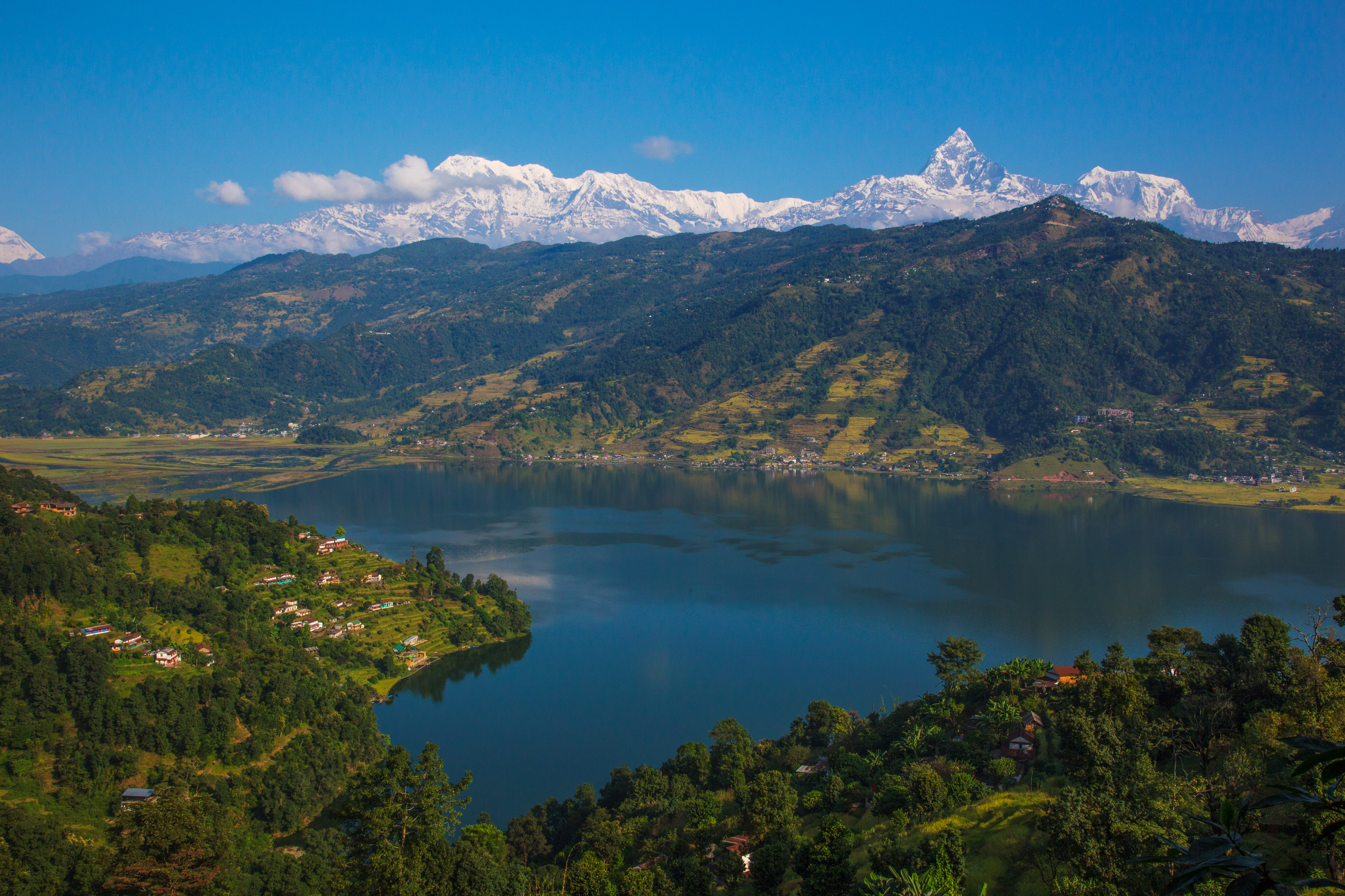 After a night in Kathmandu, our next stop towards Upper Mustang is Pokhara, just an half-hour flight from Katmandu with gorgeous views on the Himalayas all along (sit on the right of the aircraft). Pokhara is the second largest city of Nepal but, unlike the capital Kathmandu, it is quite loosely built up and still has much green space. The tourist district is along the north shore of Phewa lake. The Annapurna range on the north is only about 28 km away from the lake, and the lake is famous for the reflection of mount Machhapuchhre and other mountain peaks of the Annapurna and Dhaulagiri ranges on its surface.